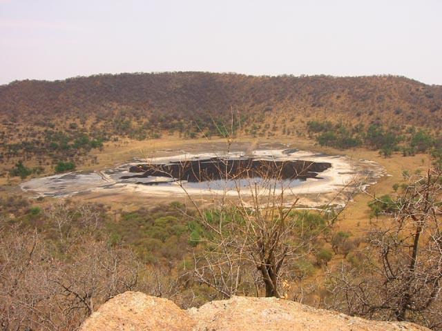 Tswaing crater, north of Pretoria. It is about 1.1 km in diameter, and was formed as the result of a meteorite impact some 200 000 years ago.